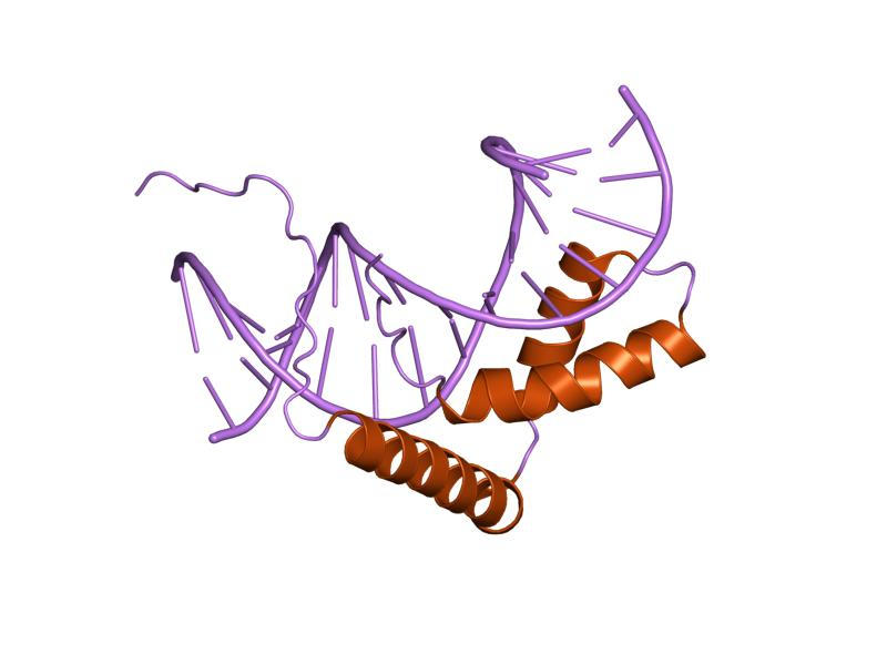 Cartoon representation of the molecular structure of protein registered with 1j47 code.